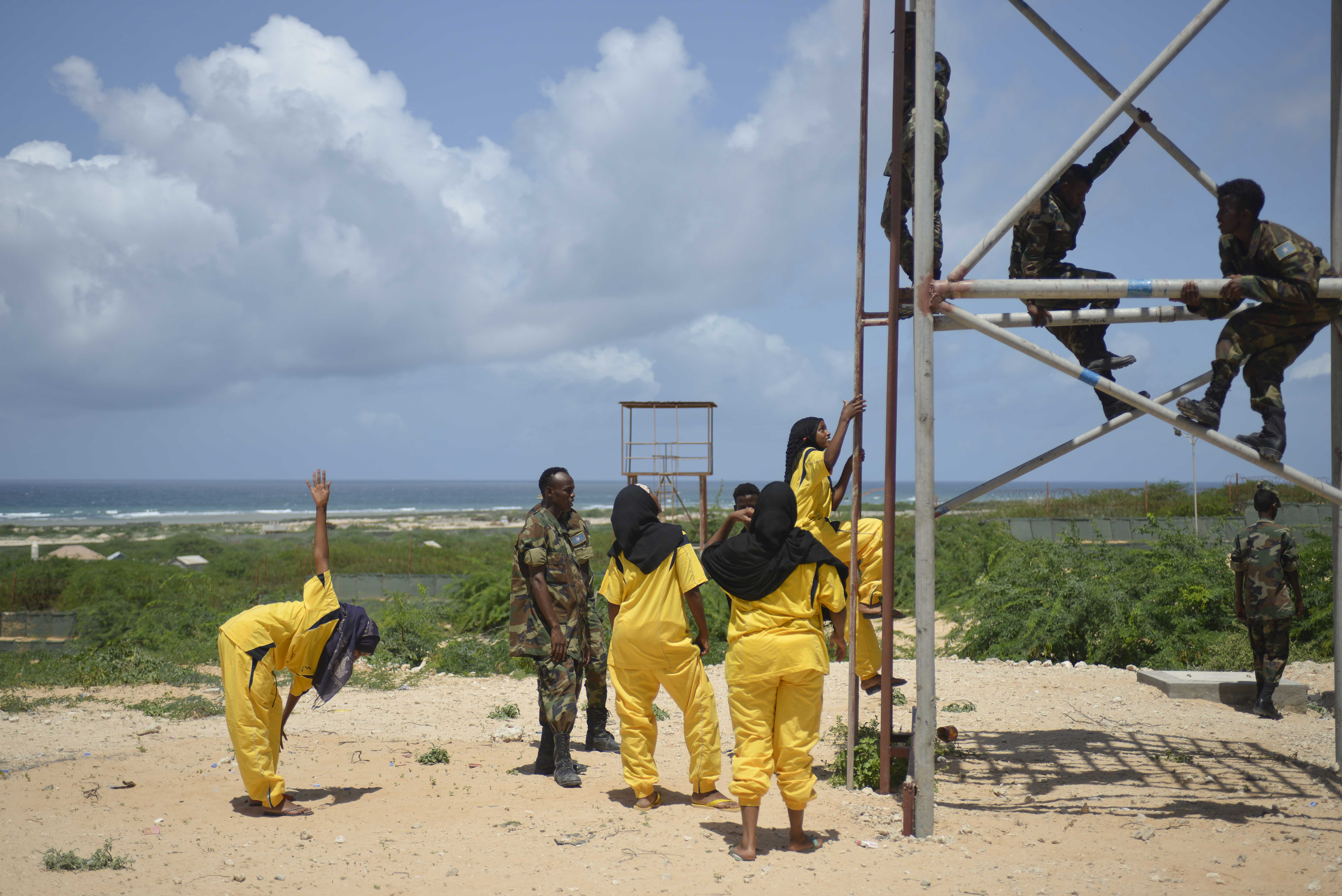 Men and Women take a break at Jazeera Military Camp in Mogadishu, Somalia, during a training excercise with European Union instructors on May 16. The class of Military Police, including both men and women, are currently being trained at the camp in order to aid the Somali National Army. AMISOM PHOTO / Tobin Jones